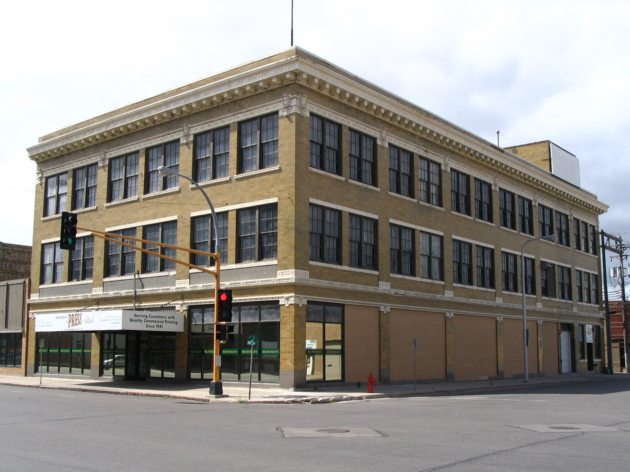 The Pence Automobile Company Building, Fargo, North Dakota. This building is listed on the National Register of Historic Places.